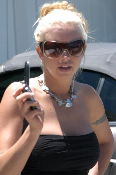 Chloe Dior at Lux Kassidy's first movie shoot Lux's Life, May 23 2006